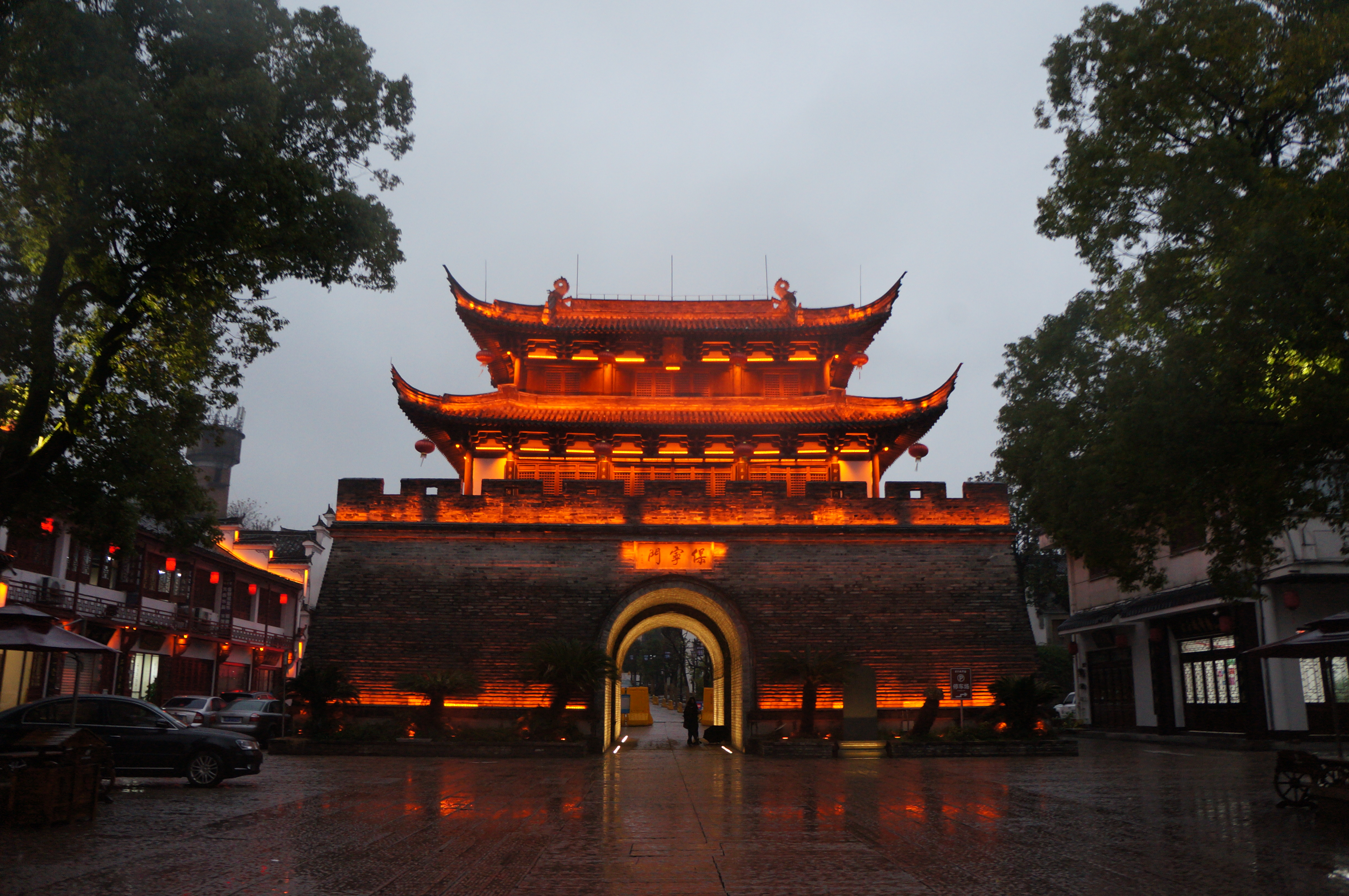 201612 Baoning Gate